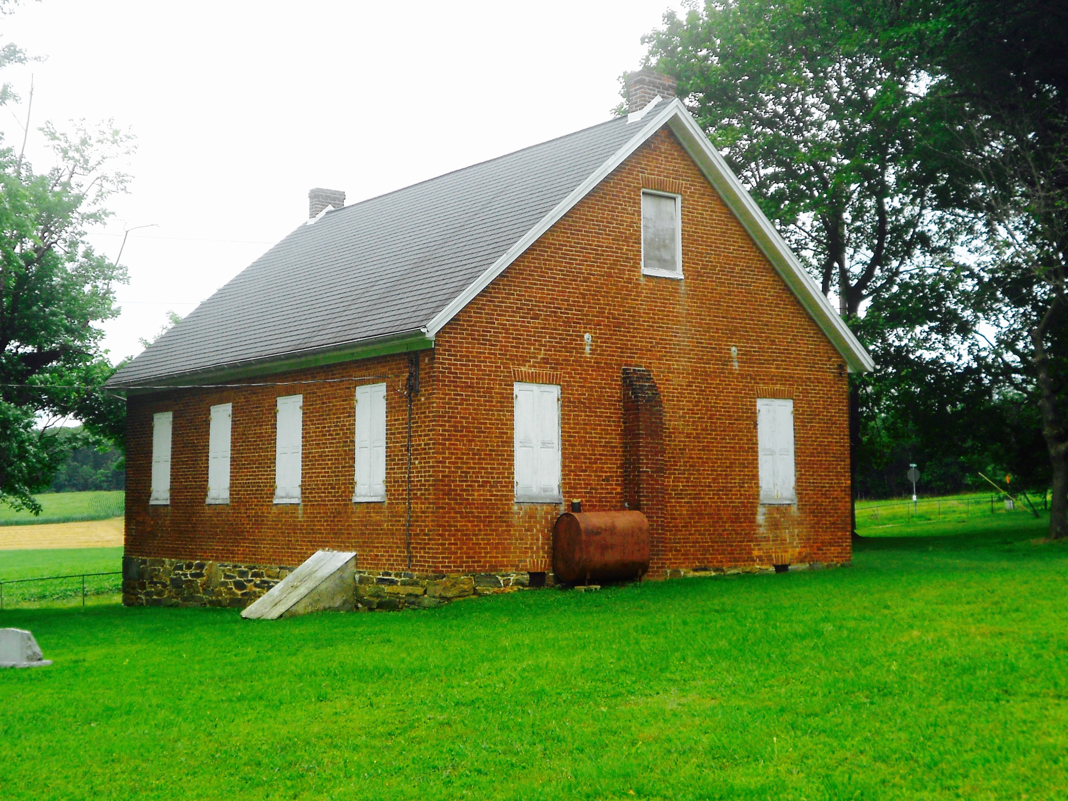 Old church in Codorus Township, York County, Pennsylvania. South of the borough of Jefferson on Chestnut Grove Road.